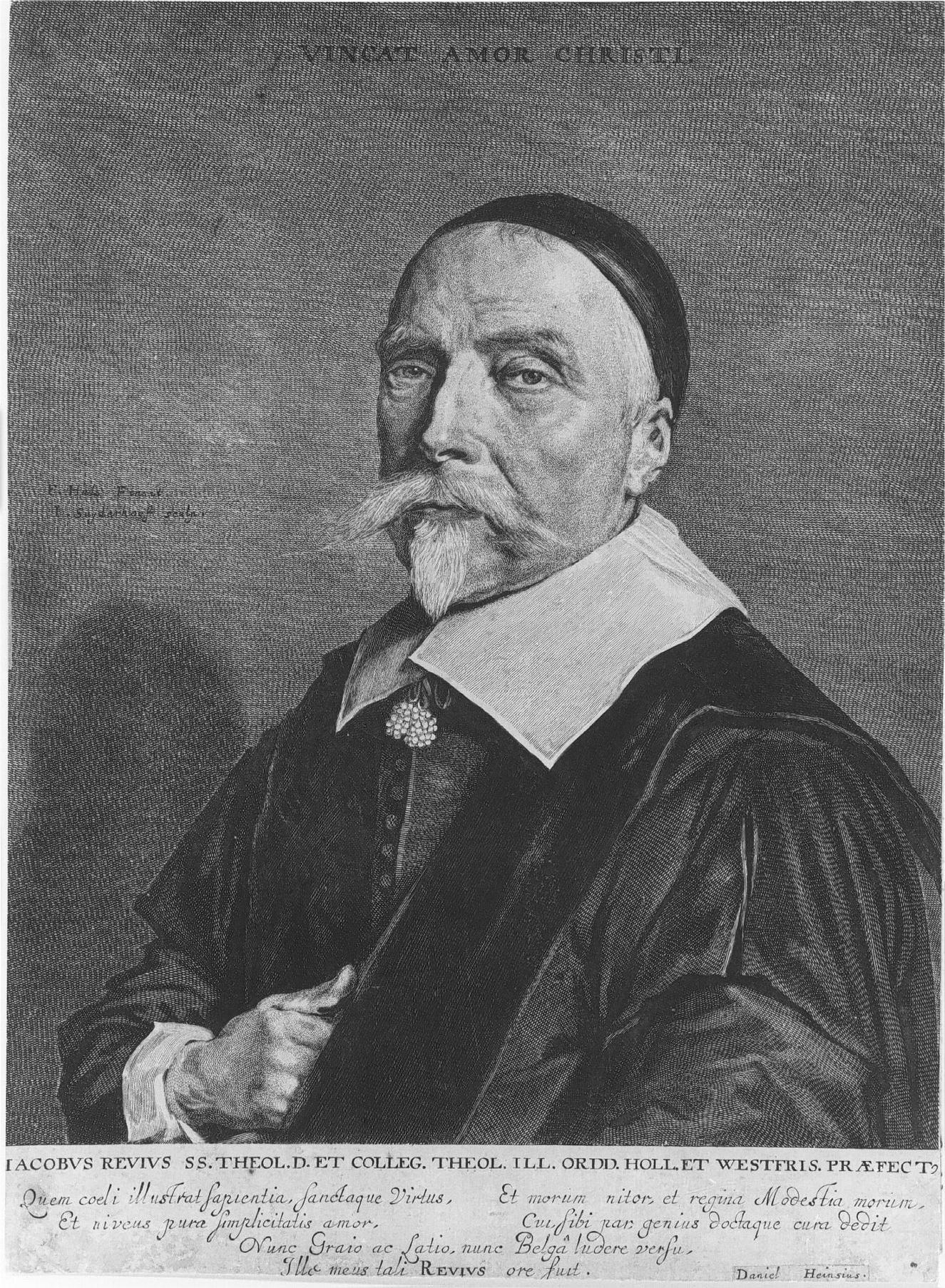 Jonas Suyderhoef (engraver) and Daniel Heinsius (poet) (after Frans Hals). Portrait of Jacob Revius (1586-1658). circa 1664-1686. Engraving. Dimensions and location unknown.